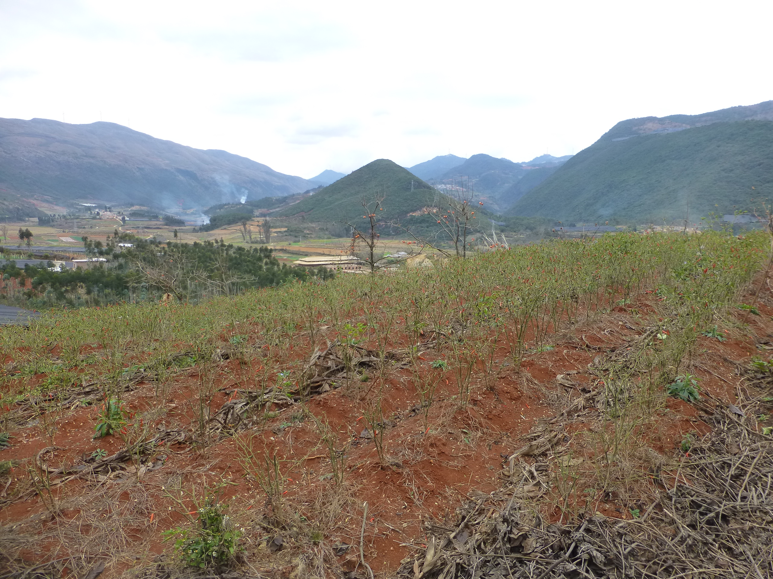 Rural scenery off Yunnan Hwy 214 in Jianshui County, somewhere around Huajiaozhai Village (north of Potou Township)